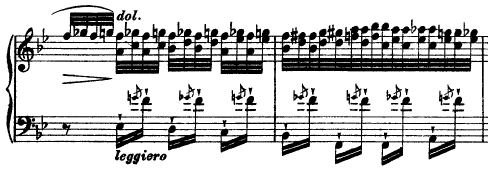 Excerpt from Liszt's Transcendental Etude 8 "Wilde Jagd"